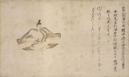 Ariwara no Narihira, from the Satake Collection Thirty-Six Poetry Immortals, Yuki Museum of Art, Osaka, Osaka, Japan